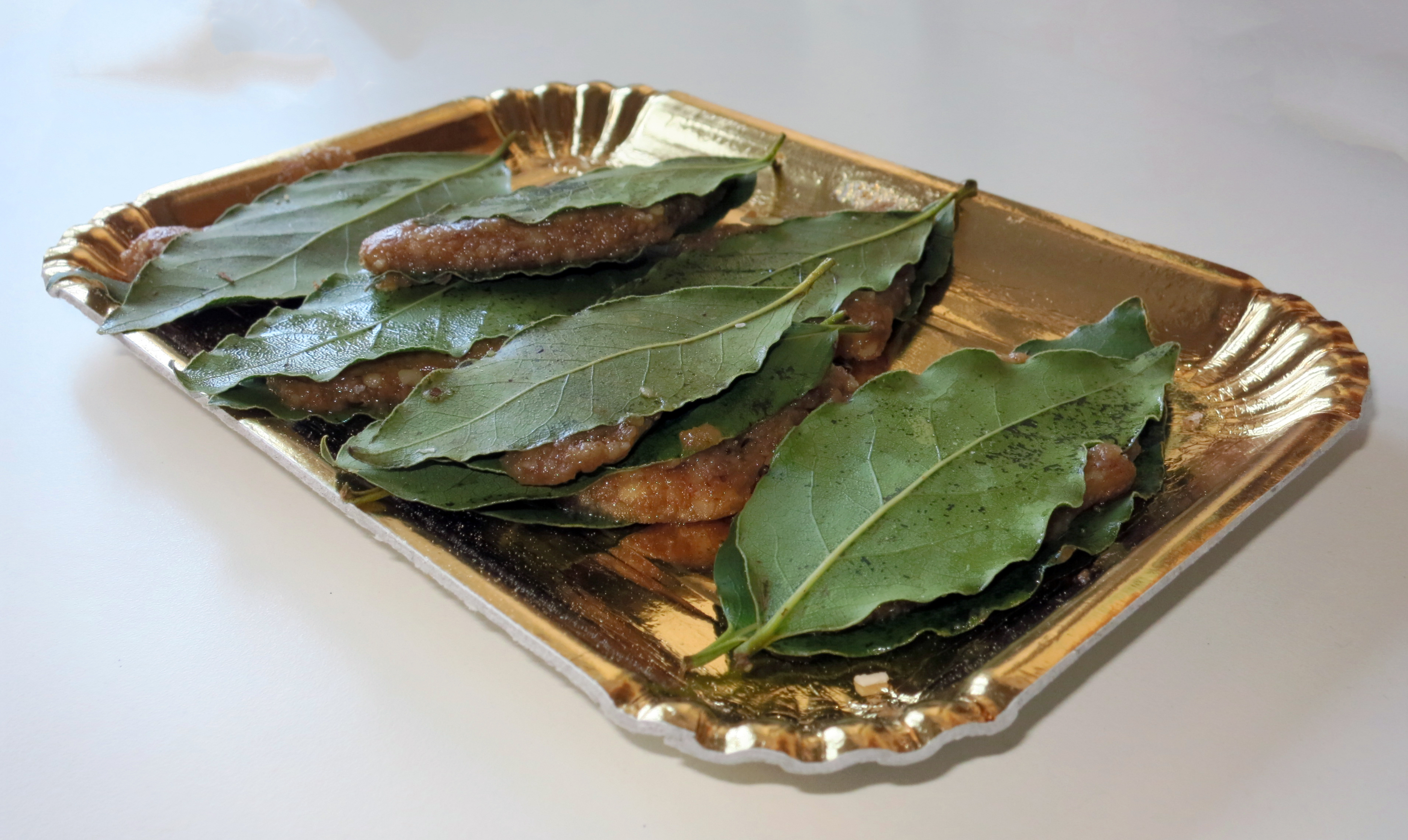 A tray of copeta (Christmas sweet food of Italy made with honey, walnuts and hazelnuts, served between bay leaves), in the "soft" variant typical of the Rieti area. Purchased in the Sant'Agnese bakery in Rieti.